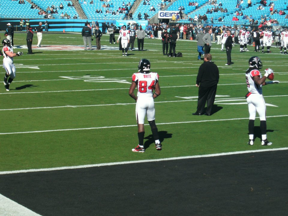 Atlanta Falcons Wide Receiver Roddy White during the 2011 season